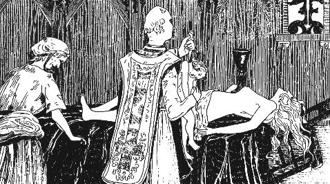 Catherine Monvoisin and the priest Étienne Guibourg perform "Black Masses" for the mistress of King Louis XIV of France, Madame de Montespan (lying on the altar).